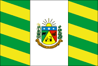 Flags of the city of Senador Salgado Filho, Rio Grande do Sul, Brazil.